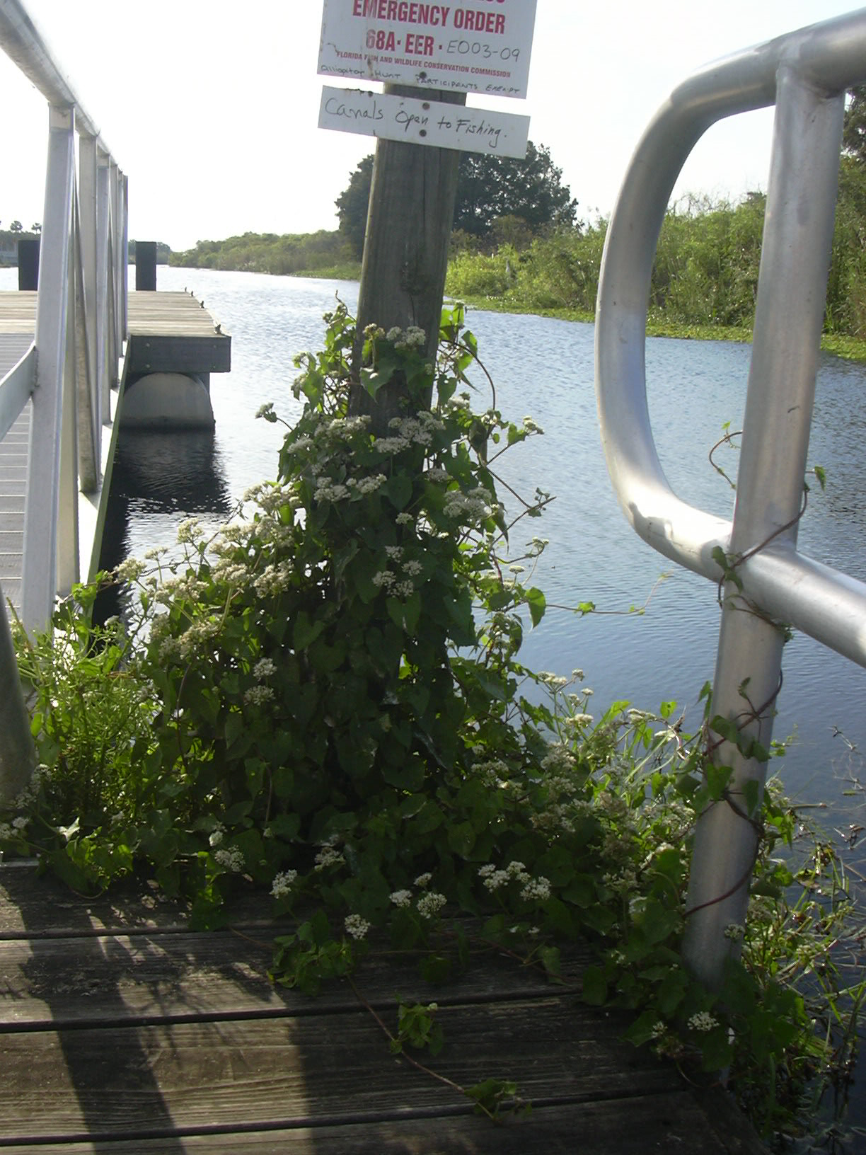 Mikania scandens (habit). Location: Florida, Alligator Alley